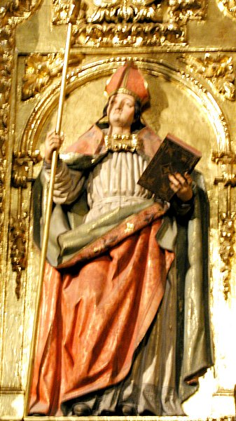 San Babil (Saint Babilas) 1687 Cathedral of St. Mary, Pamplona, Spain